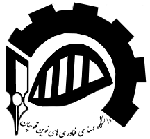 Quchan University Of Technology Logo